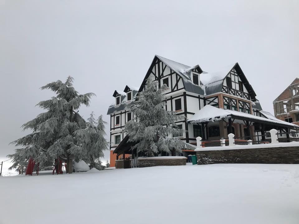 Chréa,Blida Algeria